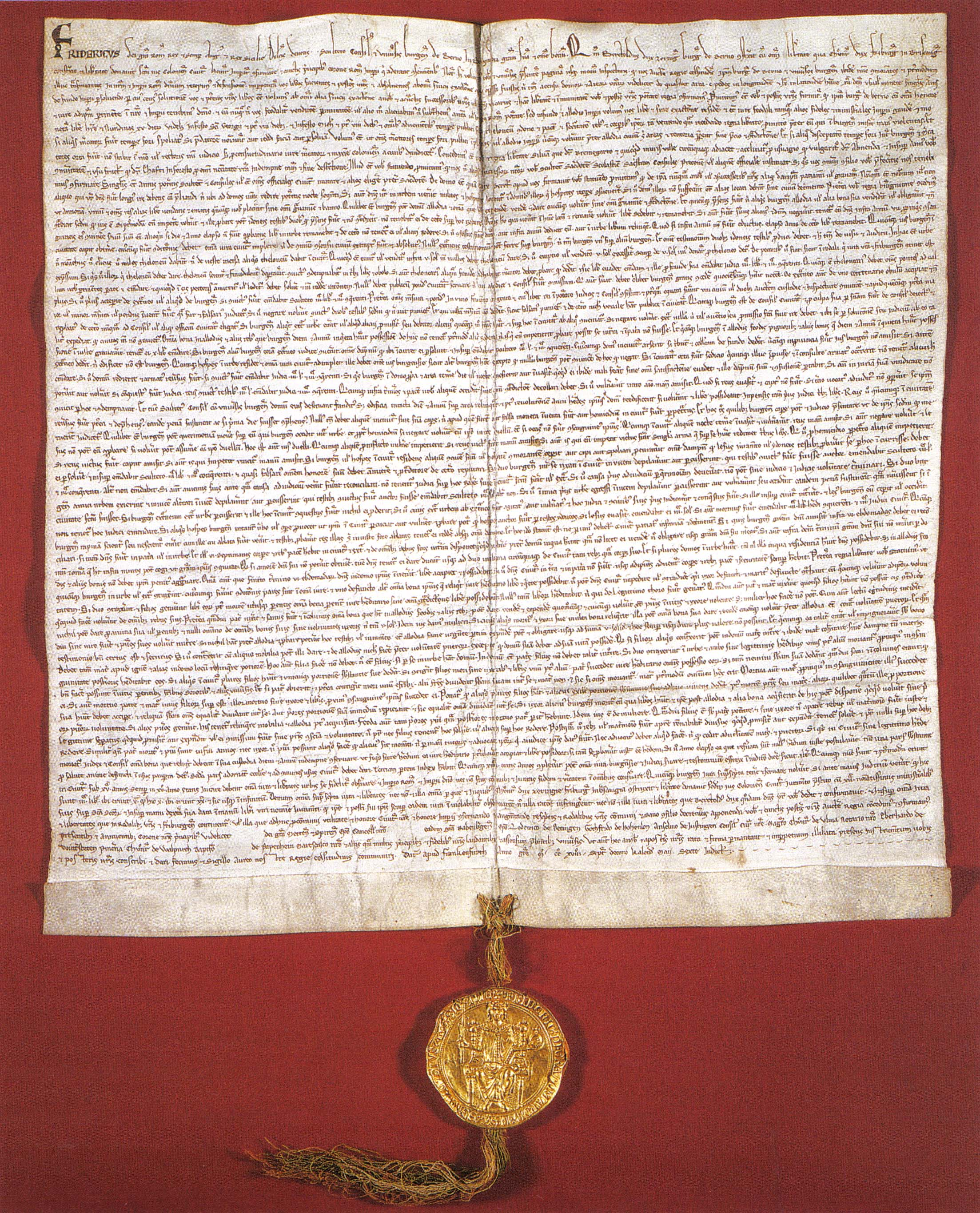 The Golden Charter (Goldene Handfeste) of Bern, dated to 1218, but likely a forgery. Established Bern's de facto independence as an Imperial Free City.